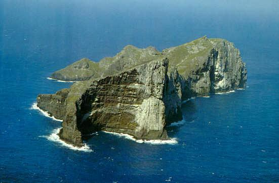 Aerial view of Nihoa Island, Northwestern Hawaiian Islands